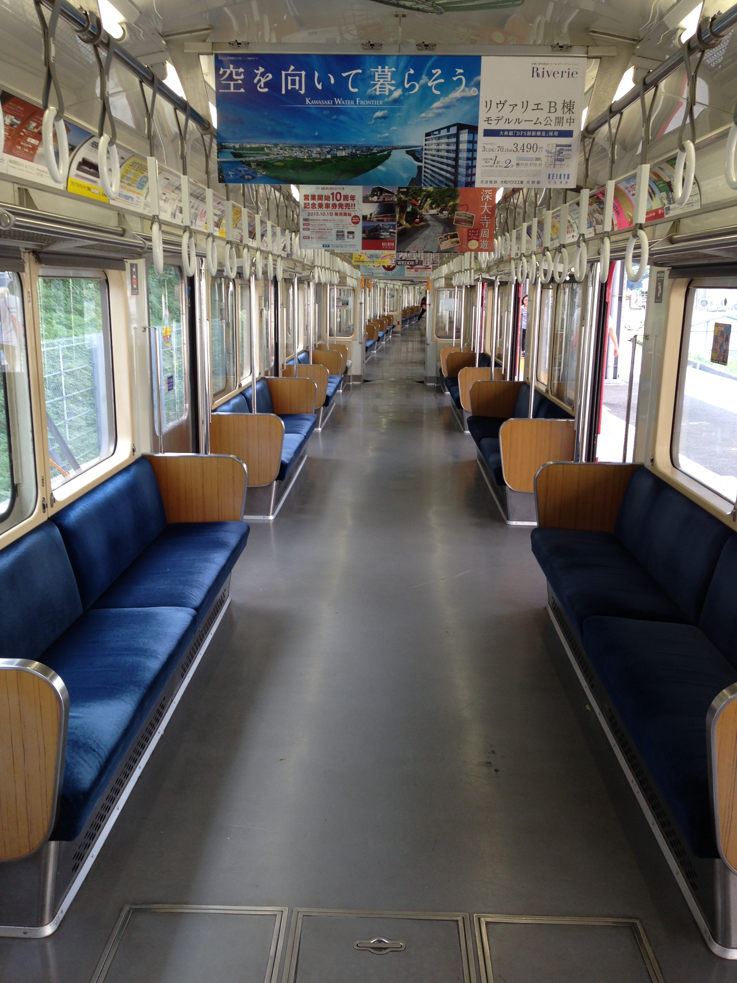 The interior of Keikyu 800 series EMU car 821-6